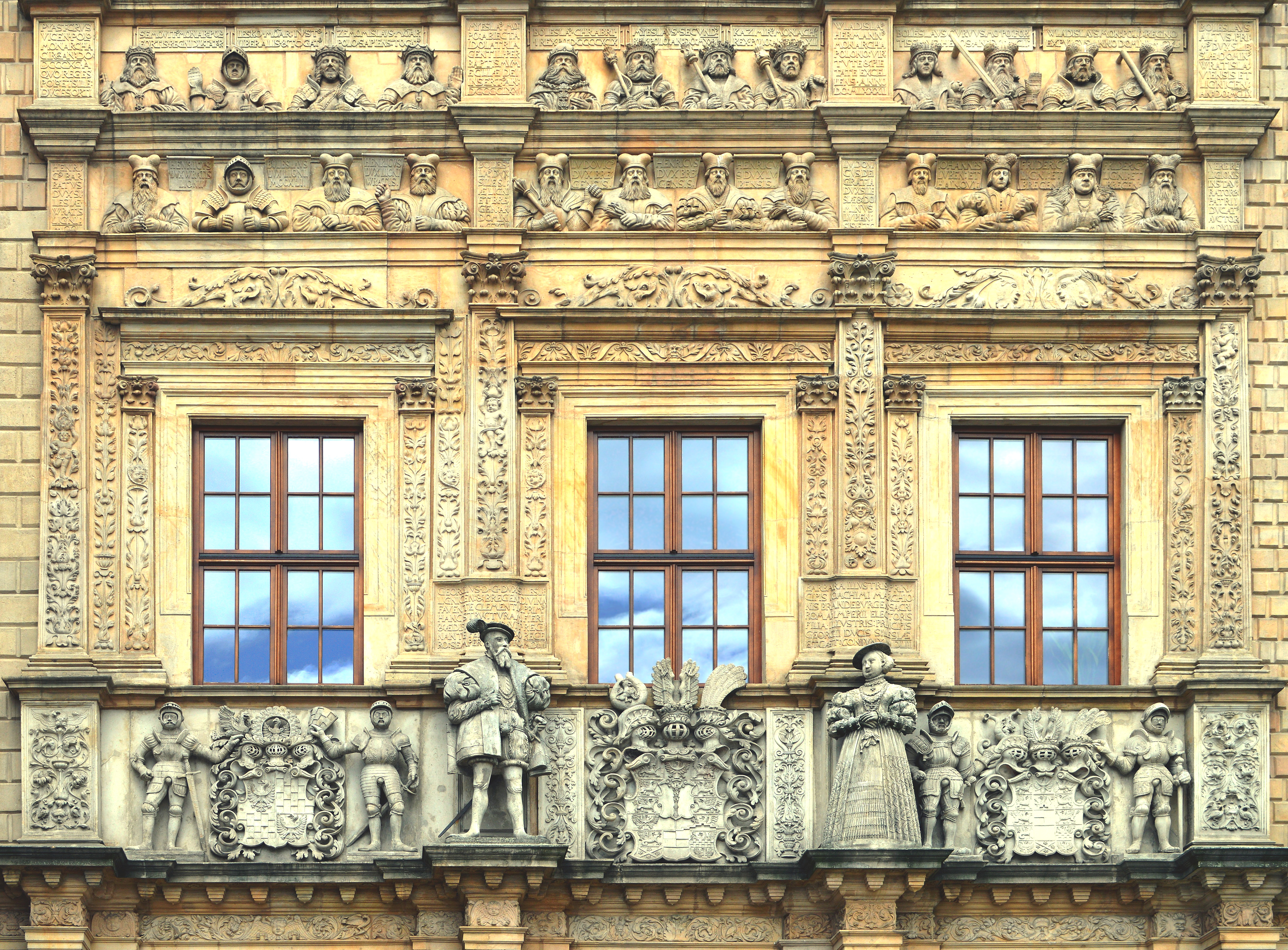 Brzeg is a town in southwestern Poland in the Opole District of Silesia; it is the capital of Brzeg County and is situated on the left bank of the River Oder. The town’s historic Brzeg Castle which has been rebuilt is also known as “The Castle of The Silesian Piasts” and “The Silesian Wawel”.